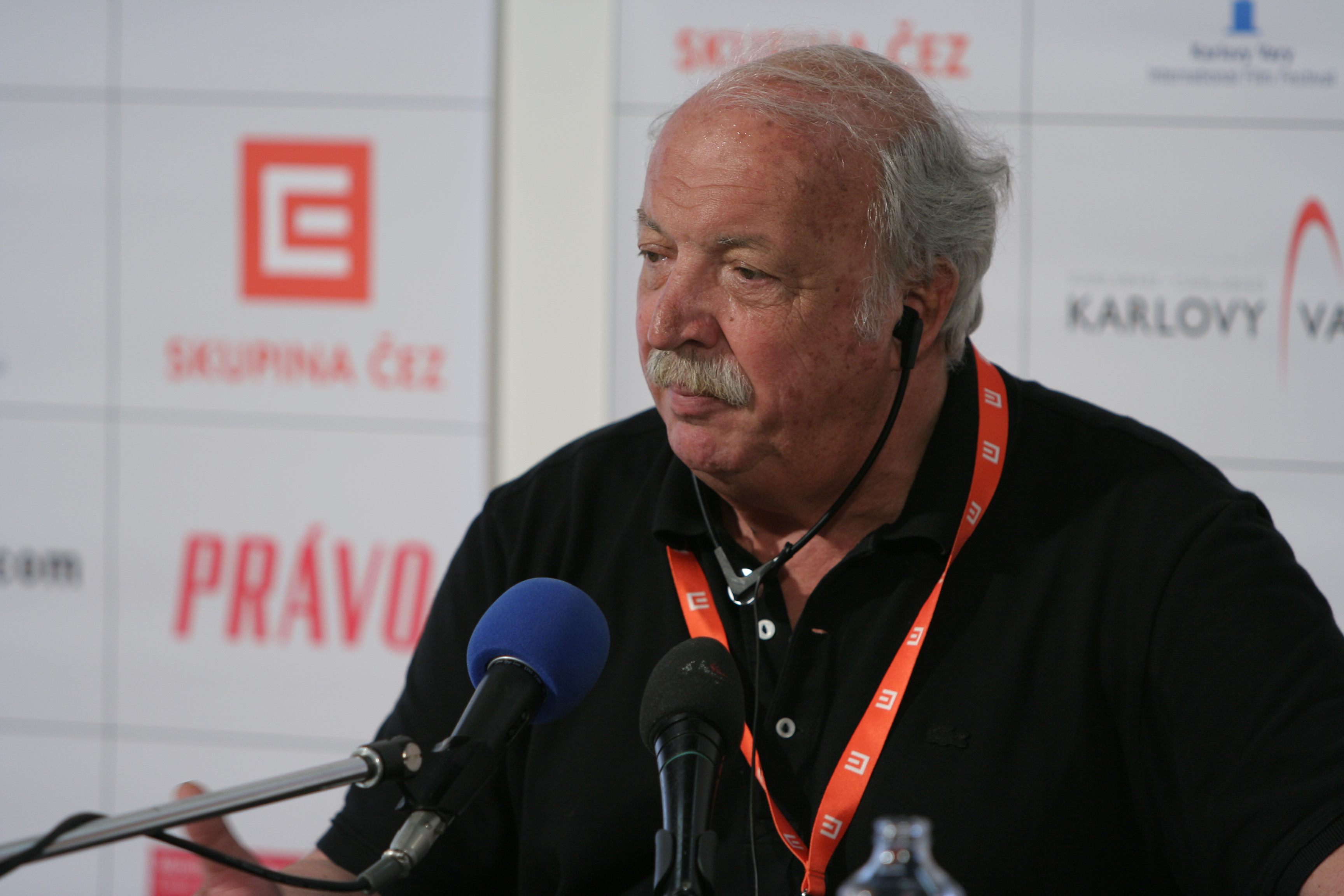 Jean Becker at 42nd Karlovy Vary International Film Festival